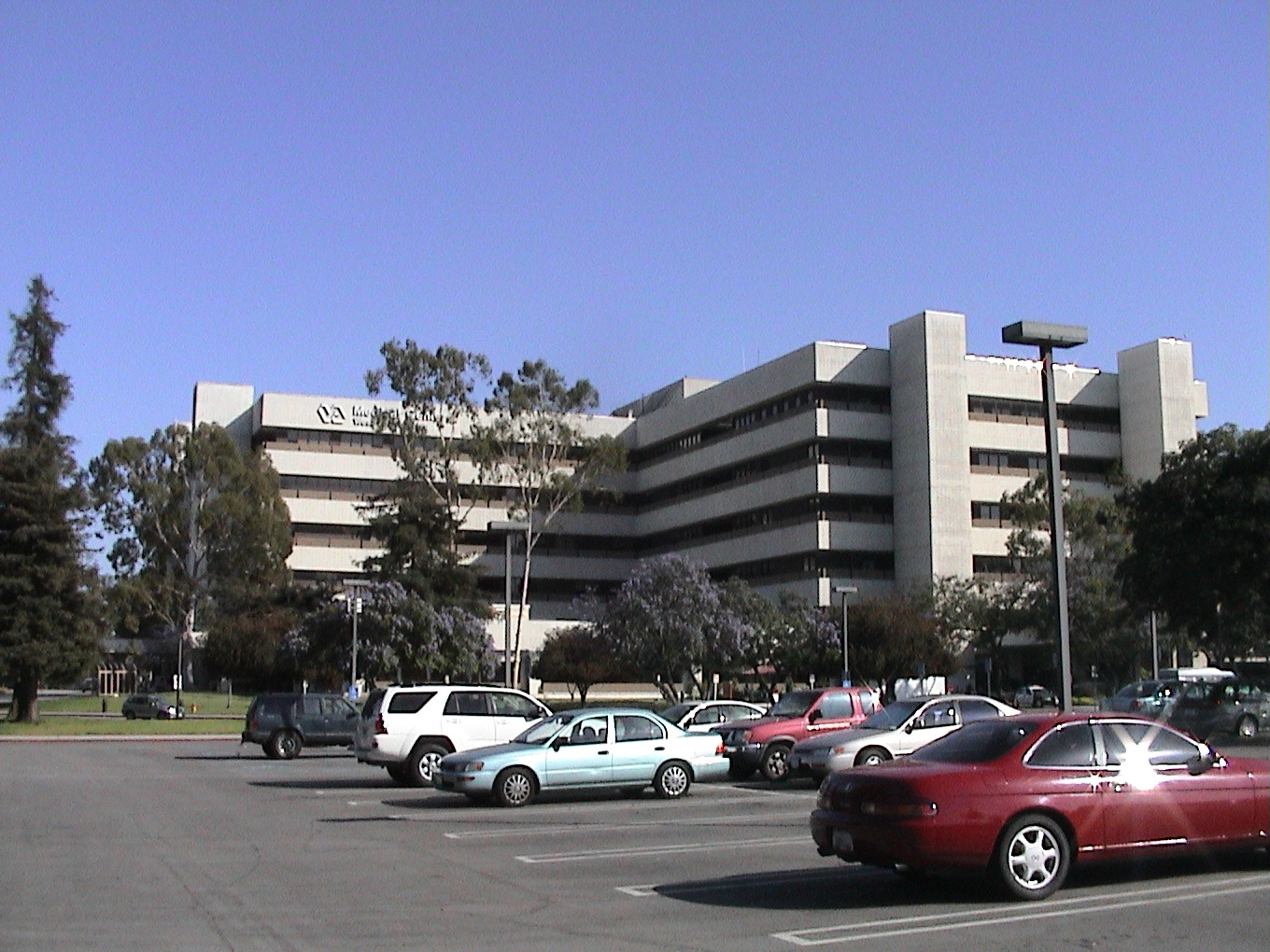 The VA Hospital in Los Angeles, full building view.